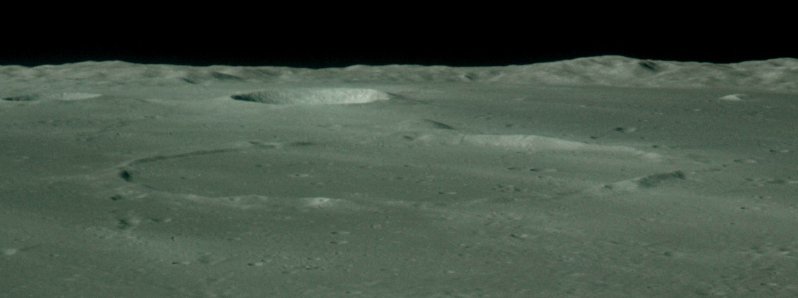 Oblique view of Kies crater, facing south, on the moon. Kies A and B are visible in the background. Rays from Tycho crater are visible as well. Brightness and contrast adjusted from original.